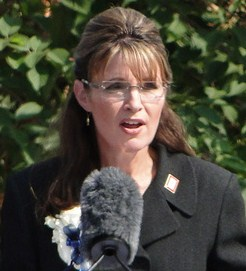 Sarah Palin, announcing her resignation as Governor of Alaska